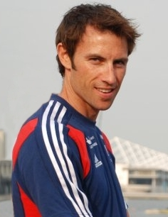 Mark Hunter at the LYG Regatta